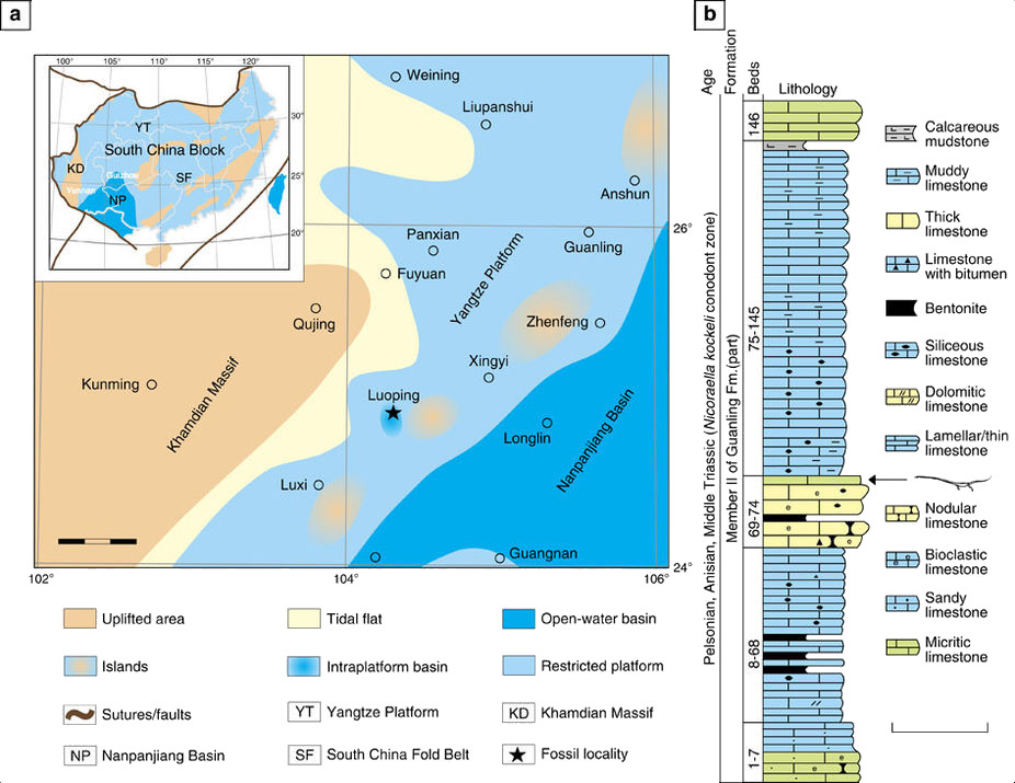 Figure 2: Locality and horizon of the new Dinocephalosaurus specimen LPV 30280. (a) Paleotectonic map showing the location of the Luoping biota where LPV 30280 is preserved. Scale bar, 60 km. (b) Stratigraphic column of the Dawazi section showing the horizon of LPV 30280. Scale bar, 2 m. IF YOU CANNOT SEE THE CREATIVE COMMONS LICENSE ON THE ARTICLE, PLEASE SCROLL DOWN